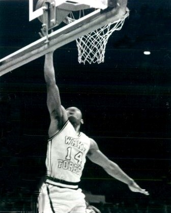 Wake Forest college basketball player Tyrone "Muggsy" Bogues attempting a layup up during a 1985 game.